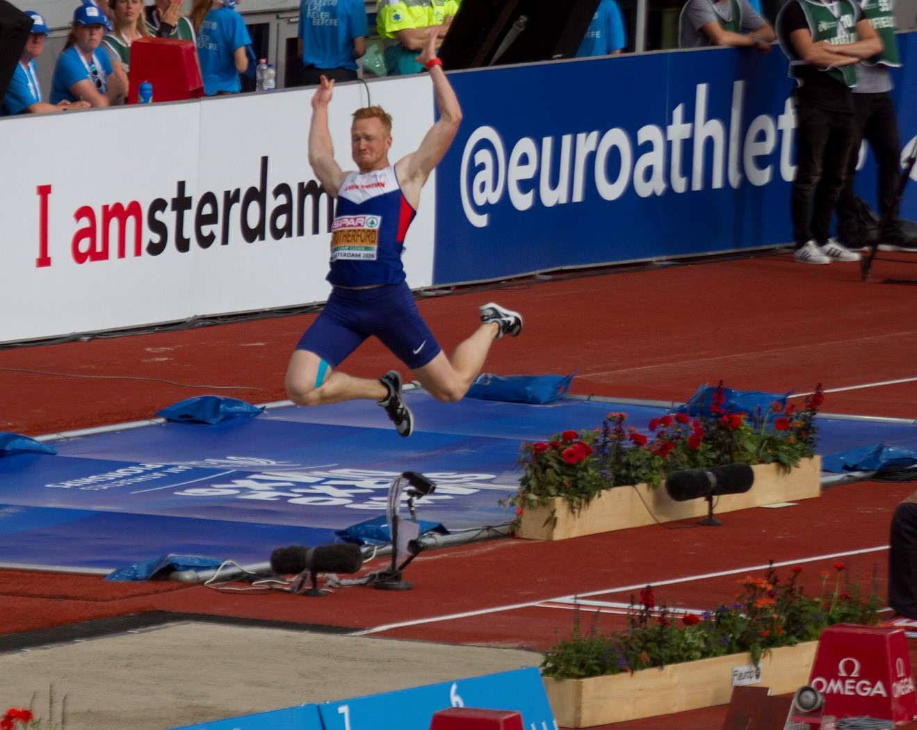 0663 rutherford ver